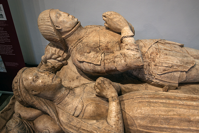 St Michael's church, Thornhill - monument to Sir John Savile